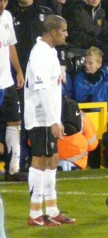 French football (soccer) player Hameur Bouazza